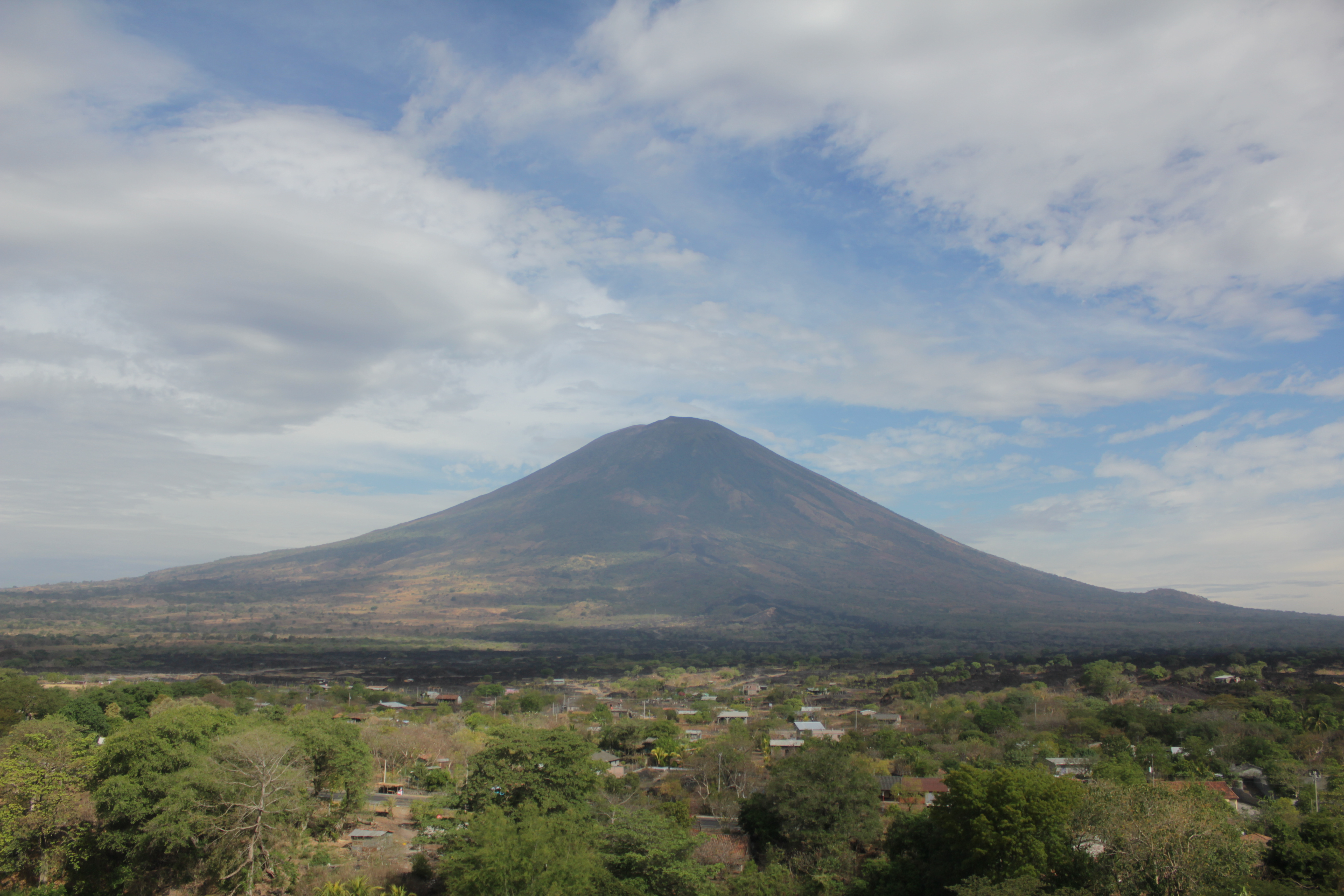 The San Miguel (Chaparrastique) Volcano in eastern El Salvador in 2012, viewed from the village of El Borbollon (El Transito, San Miguel).